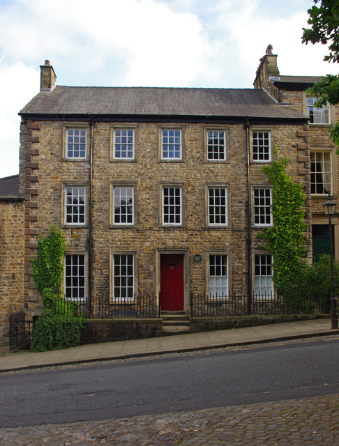 Photograph of 24 Castle Park, Lancaster, former office of the architects Paley & Austin